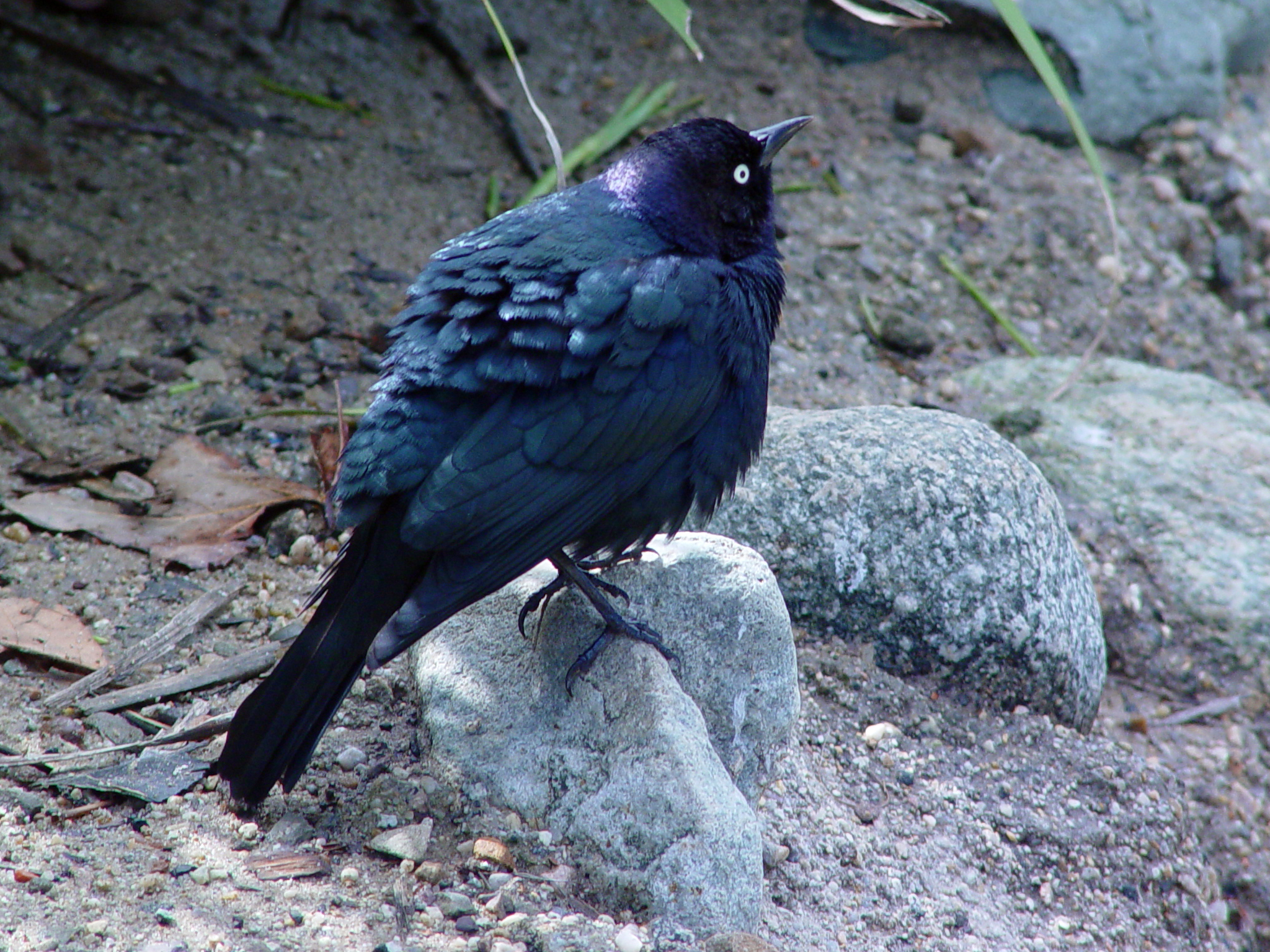 Male Brewer's Blackbird (Euphagus cyanocephalus). In this shot, he has taken a big breath and puffed himself up a bit, and is about to let out a loud chirp.